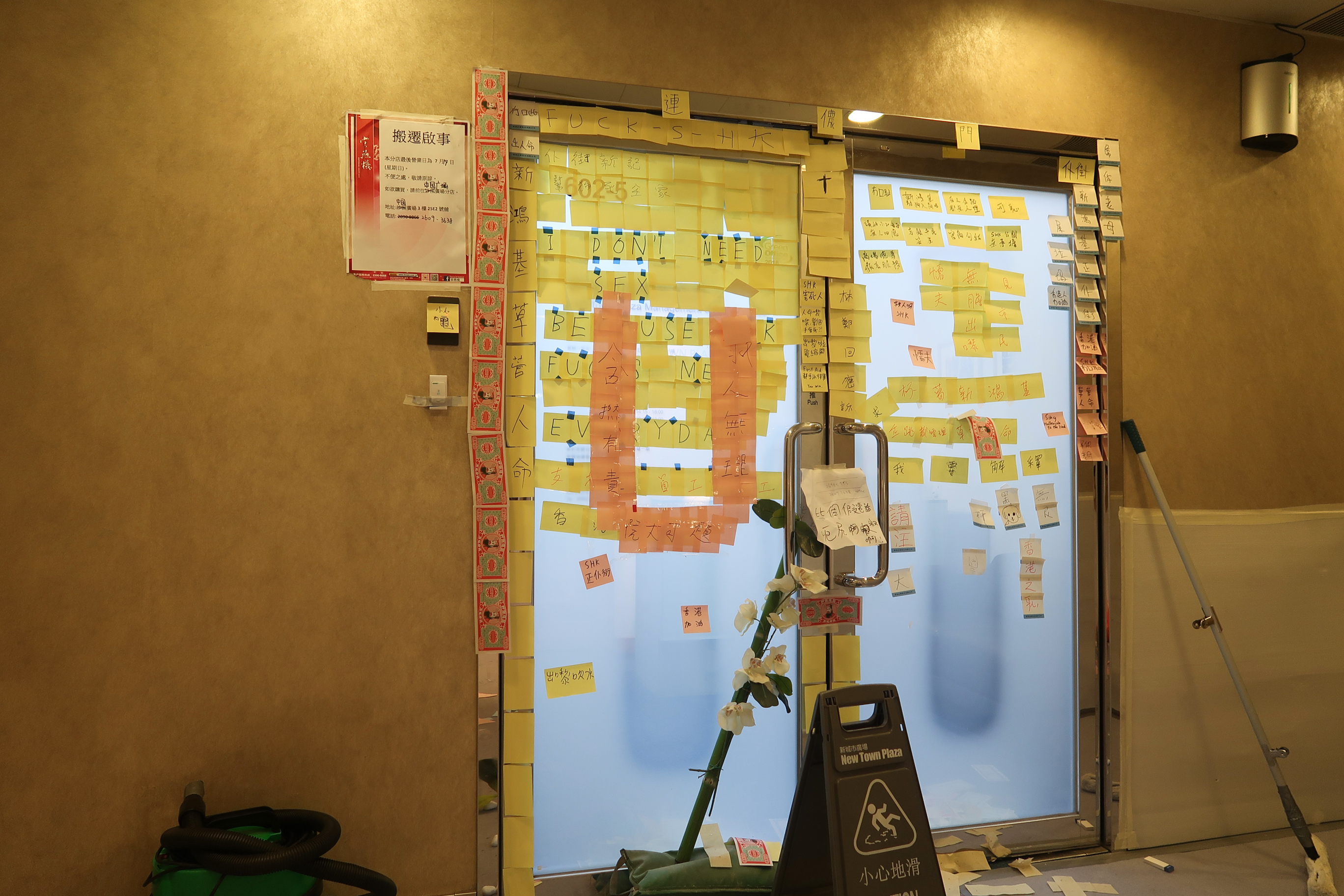 People post message outside New Town Plaza Management Service Office